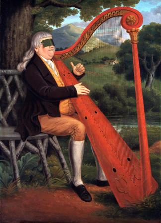 William Williams, 'Will Penmorfa' (1759-1828) The blind William Williams (1759-1828) known as 'Will Penmorfa' was harpist to the Gwynne family at Tregig near Llandeilo. Many Welsh families maintained harpists. The best known, John Parry (1710-1782), was retained by Sir Watkin Williams Wynn as organist and harpist at Wynnstay at ?110 per annum. Williams is playing the harp in a typically Welsh left shoulder position. The draughtsmanship of the instrument is unrealistic, especially in its stringing system. The artist who signed this picture may be the J Chapman who exhibited at the Royal Academy in 1819 and 1836.